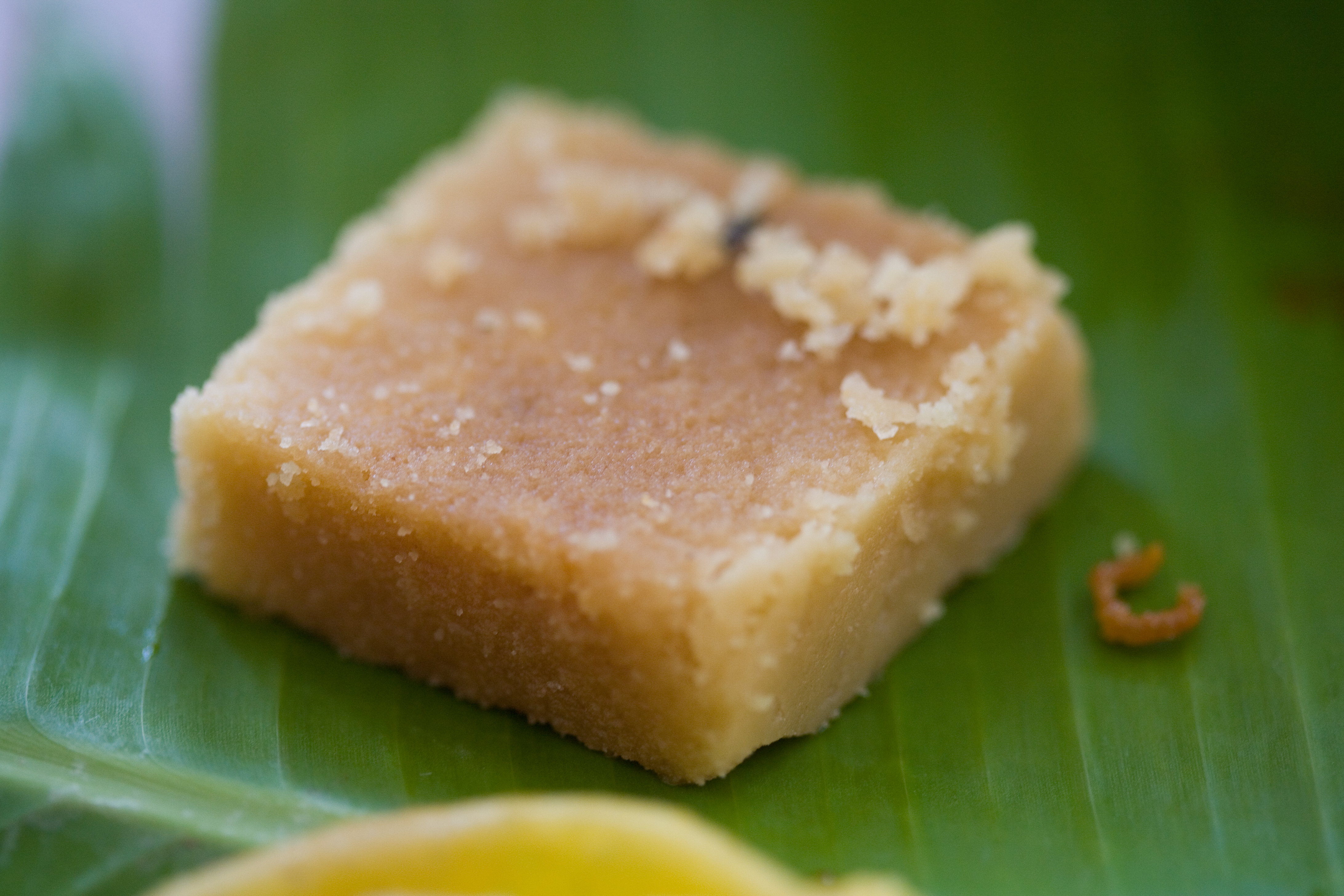 Mysore pak is a famous sweet dish of Karnataka, India, usually served as dessert. It is made of large amounts of ghee (clarified butter), sugar and chick pea (besan) flour.